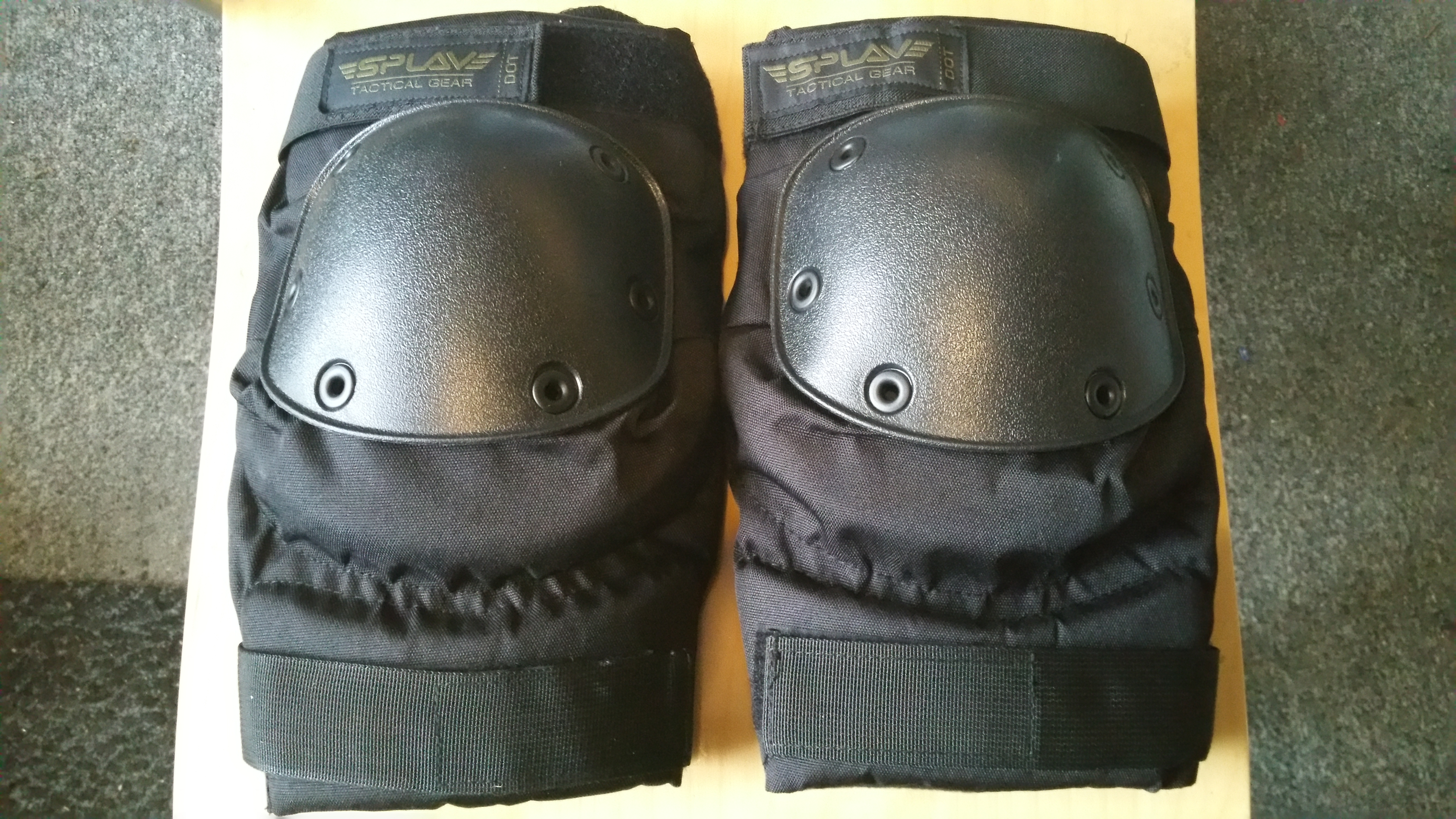 Tactical gear Knee pads made by the Russian company Splav